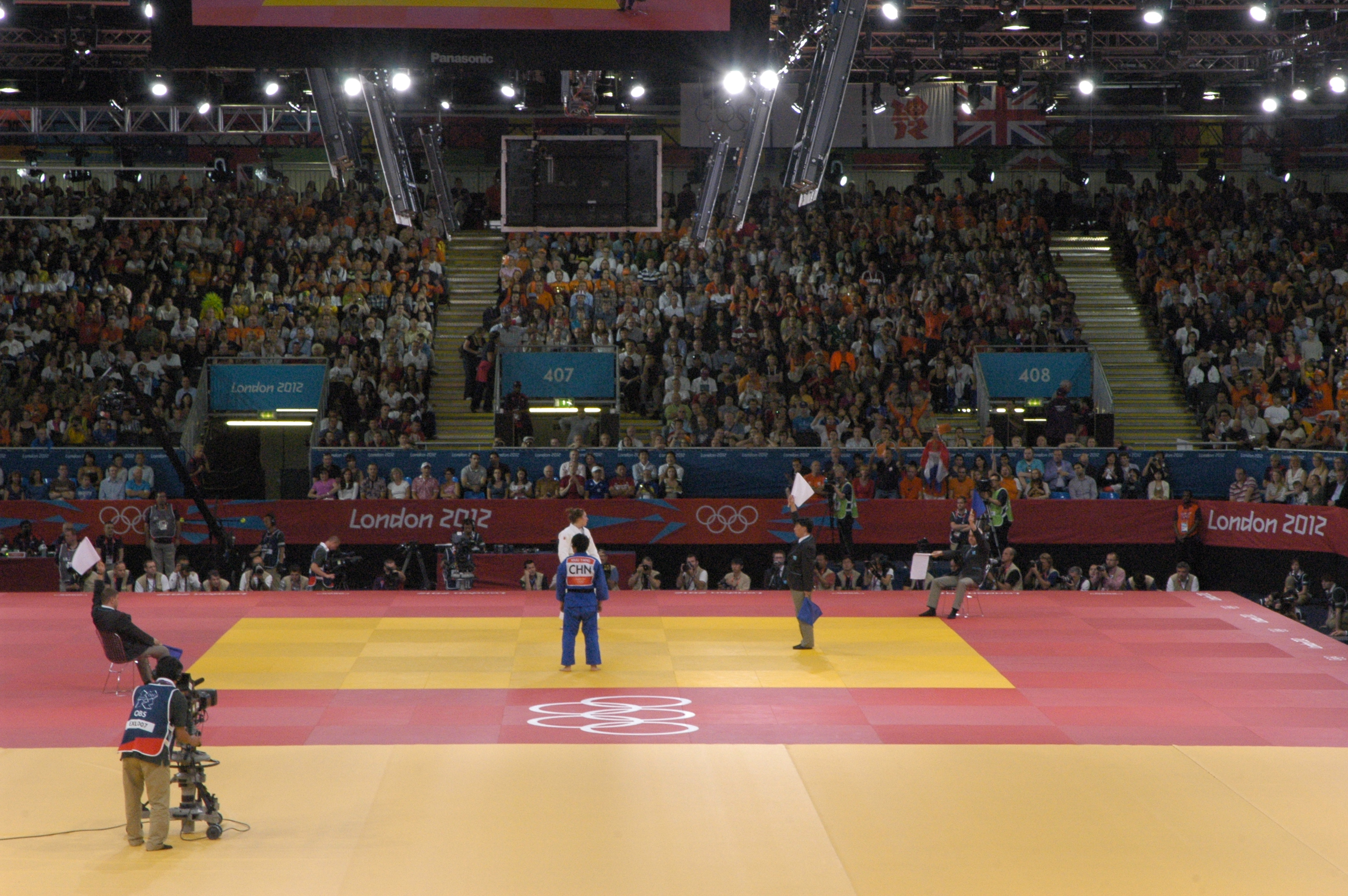 Judo at the 2012 Summer Olympics – Women's 78 kg, repaches. Marhinde Verkerk (NED) Yang Xiuli (CHN)